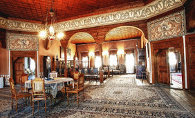 hadji Lampsha